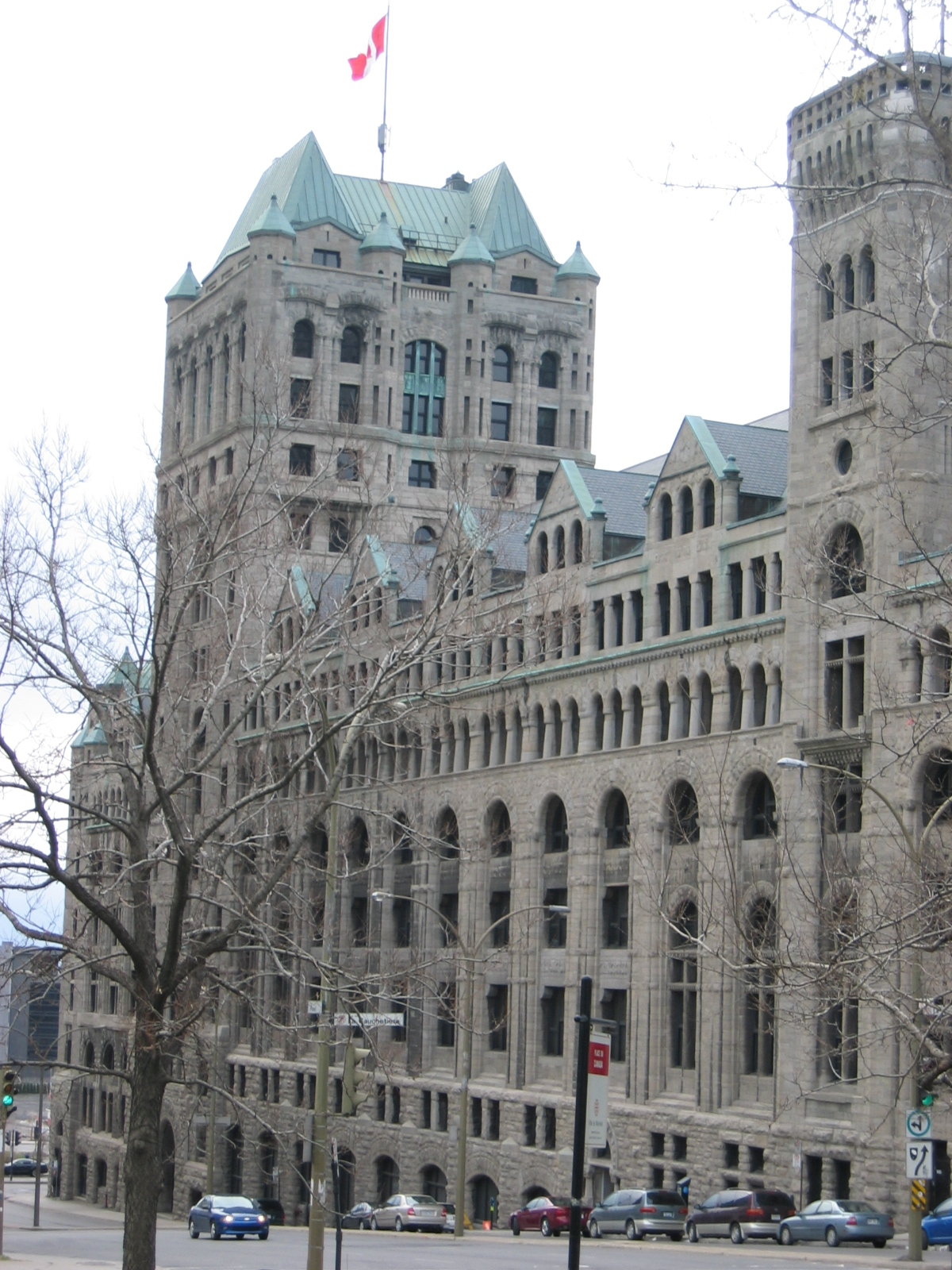 Windsor Station, Montreal, Canada.